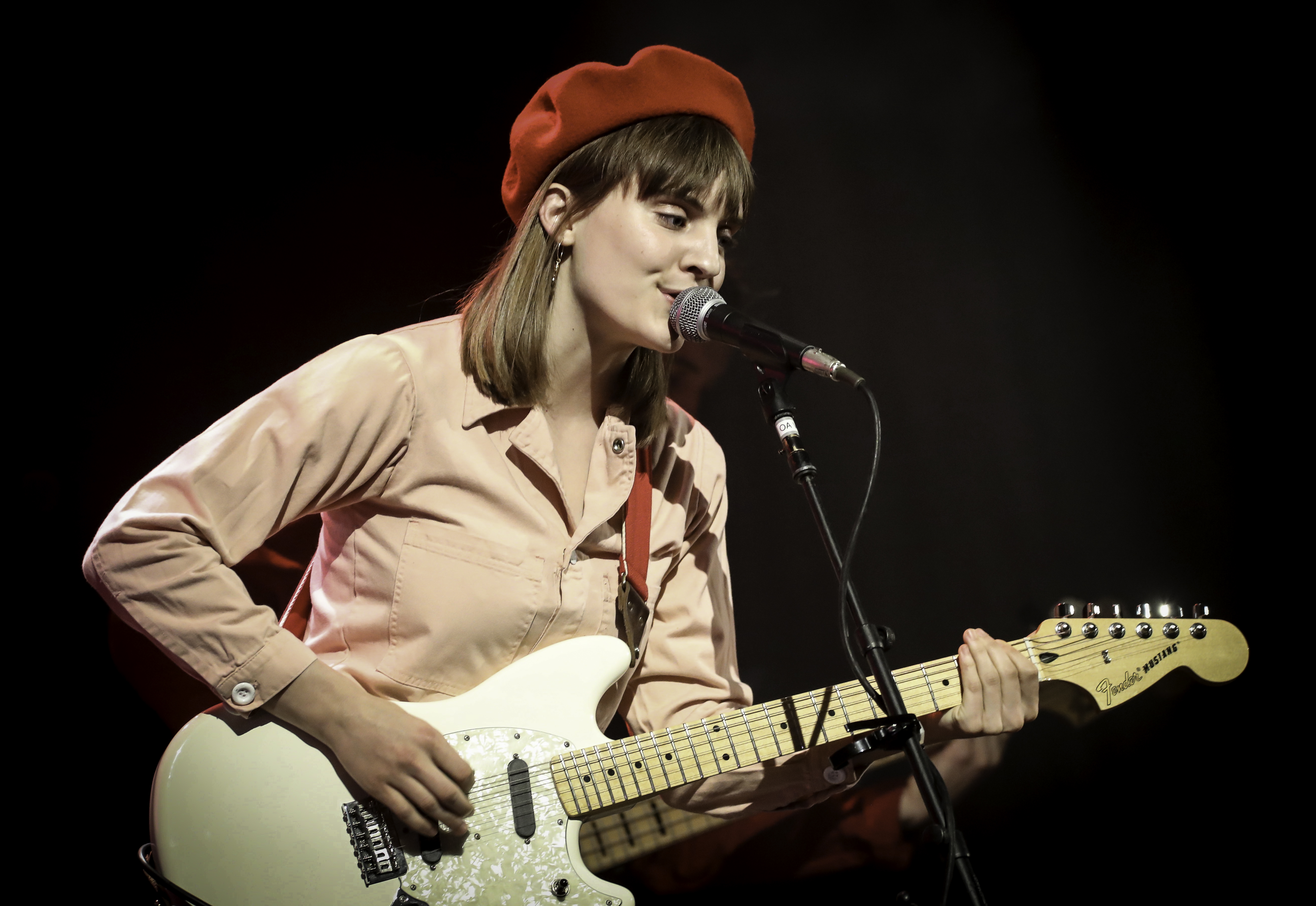 Liza Anne - Palace Theatre St. Paul